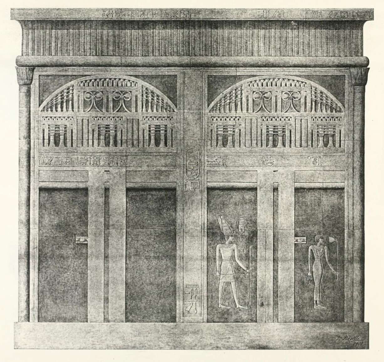 Shrine/outer sarcophagus of Ashayet, a queen of pharaoh Mentuhotep II, from Deir el-Bahari. Reign of Mentuhotep II, 11th Dynasty, early Middle Kingdom.